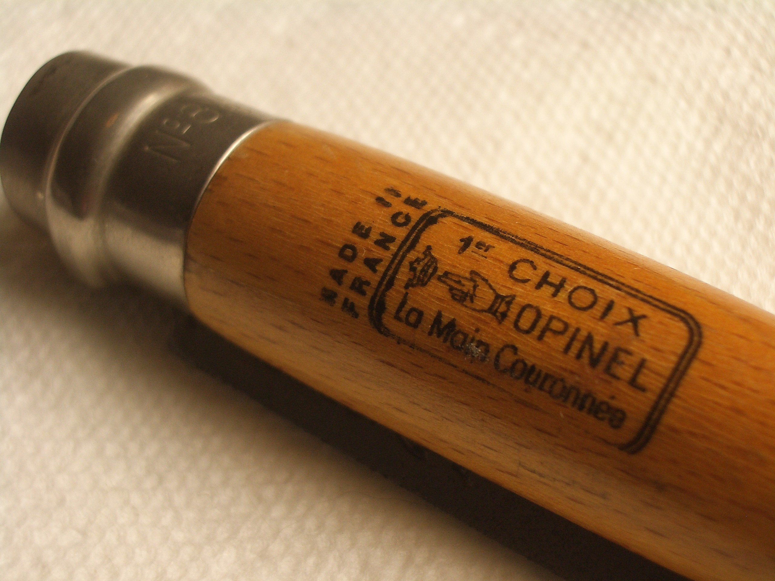 Photograph of a closed Number 8 Opinel